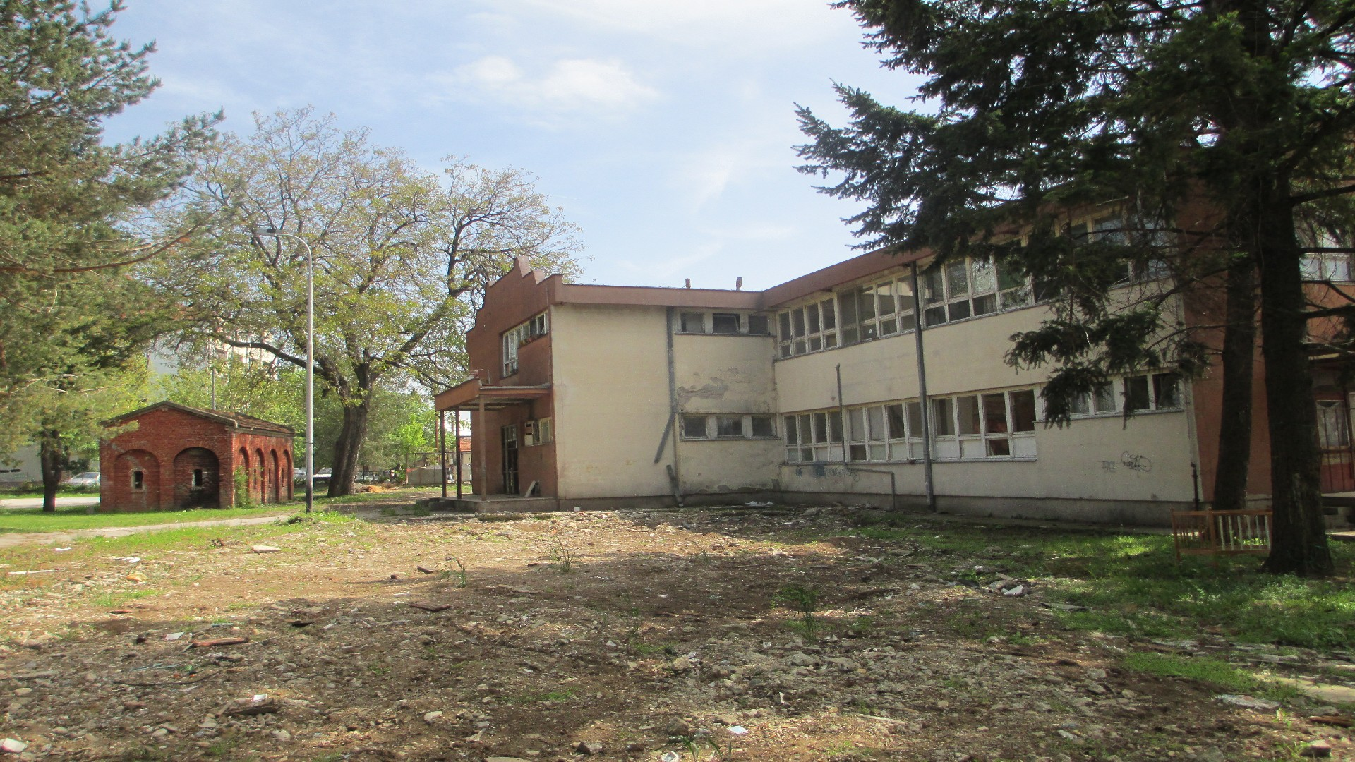 Byzantium tomb in Jagodin Mali- Niš